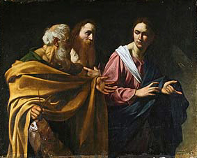 Calling of Saints Andrew and Peter, after Caravaggio